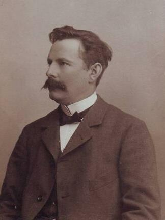 Swedish professor Oscar Henrik Carlgren (1865-1954). Owner of original photo: Lill-Britt Anderberg, Solna.